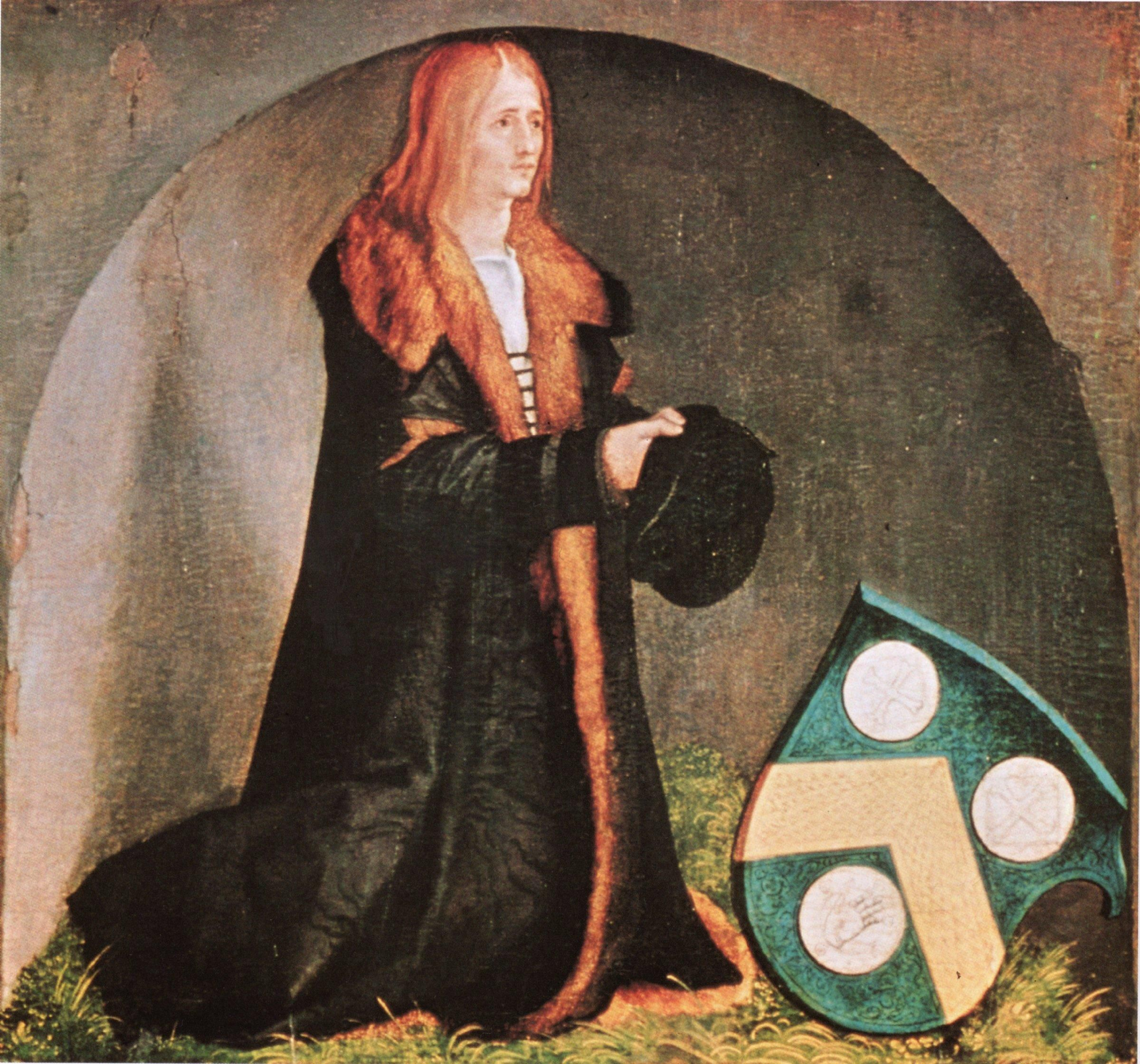 Bottom left wing, scene: The Benefactor Jacob Heller with coat of arms